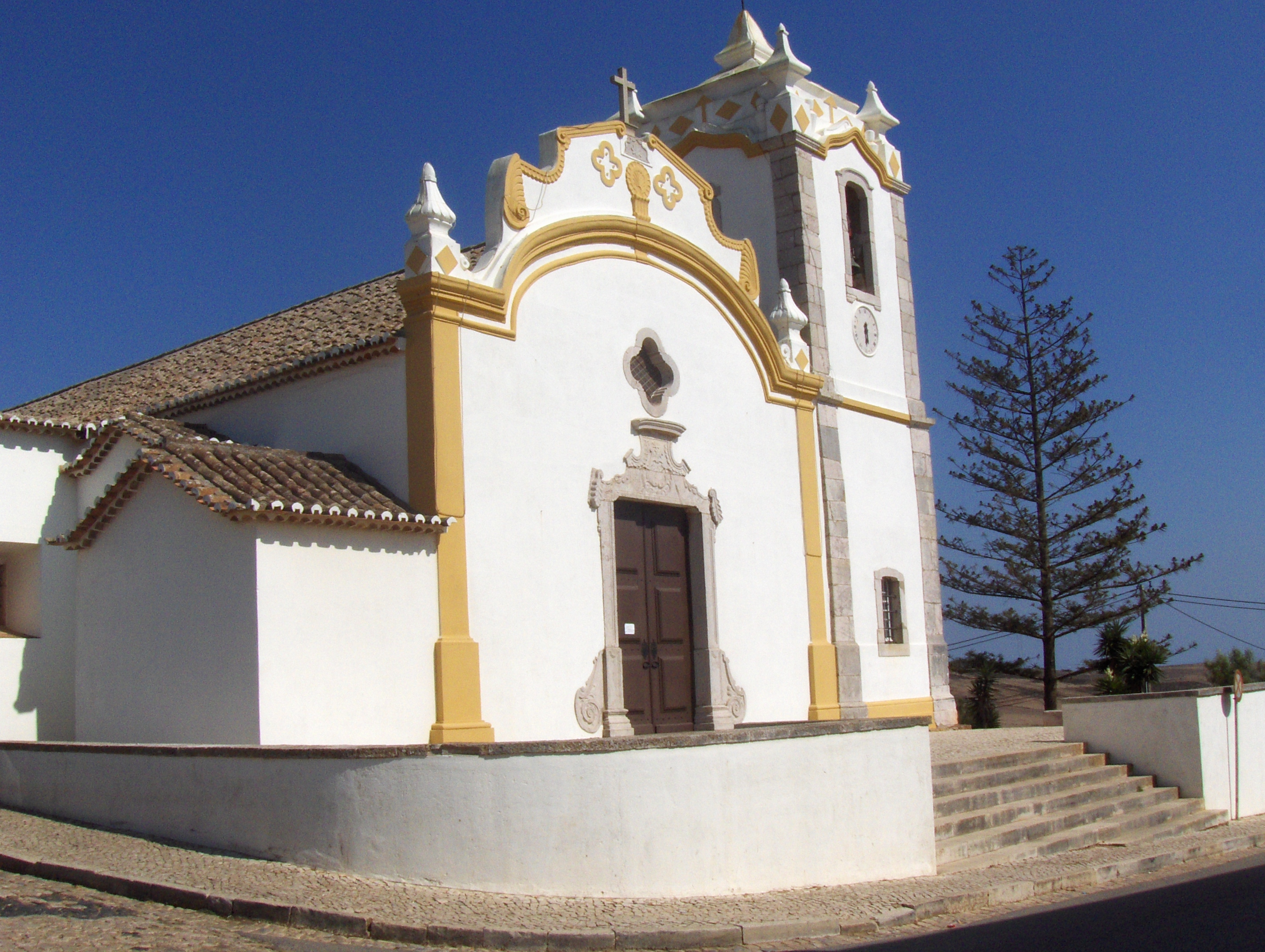 This file was uploaded for Wiki Loves Monuments in Portugal with the unique identifier 75043.